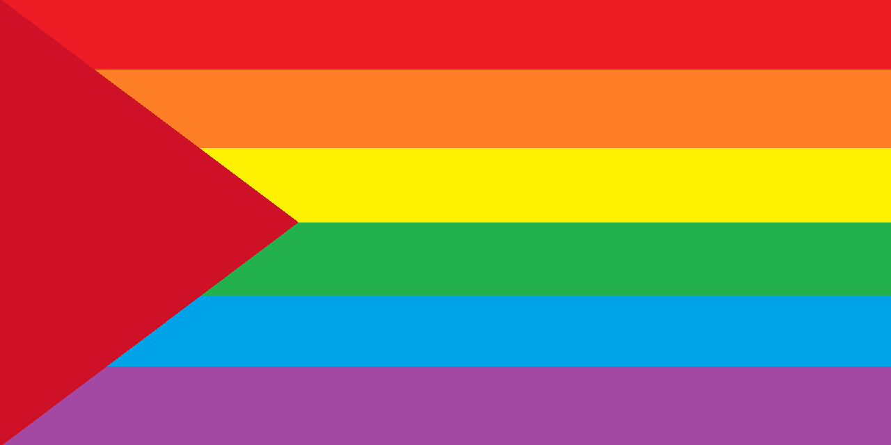 Palestinian LGBT Pride banner